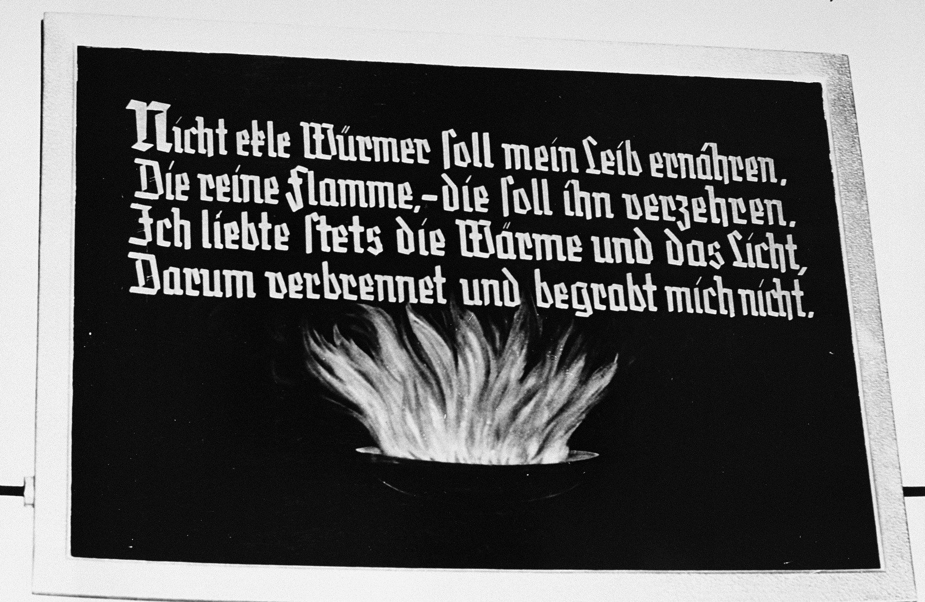 A sign that hung on the wall of the crematorium in Buchenwald.